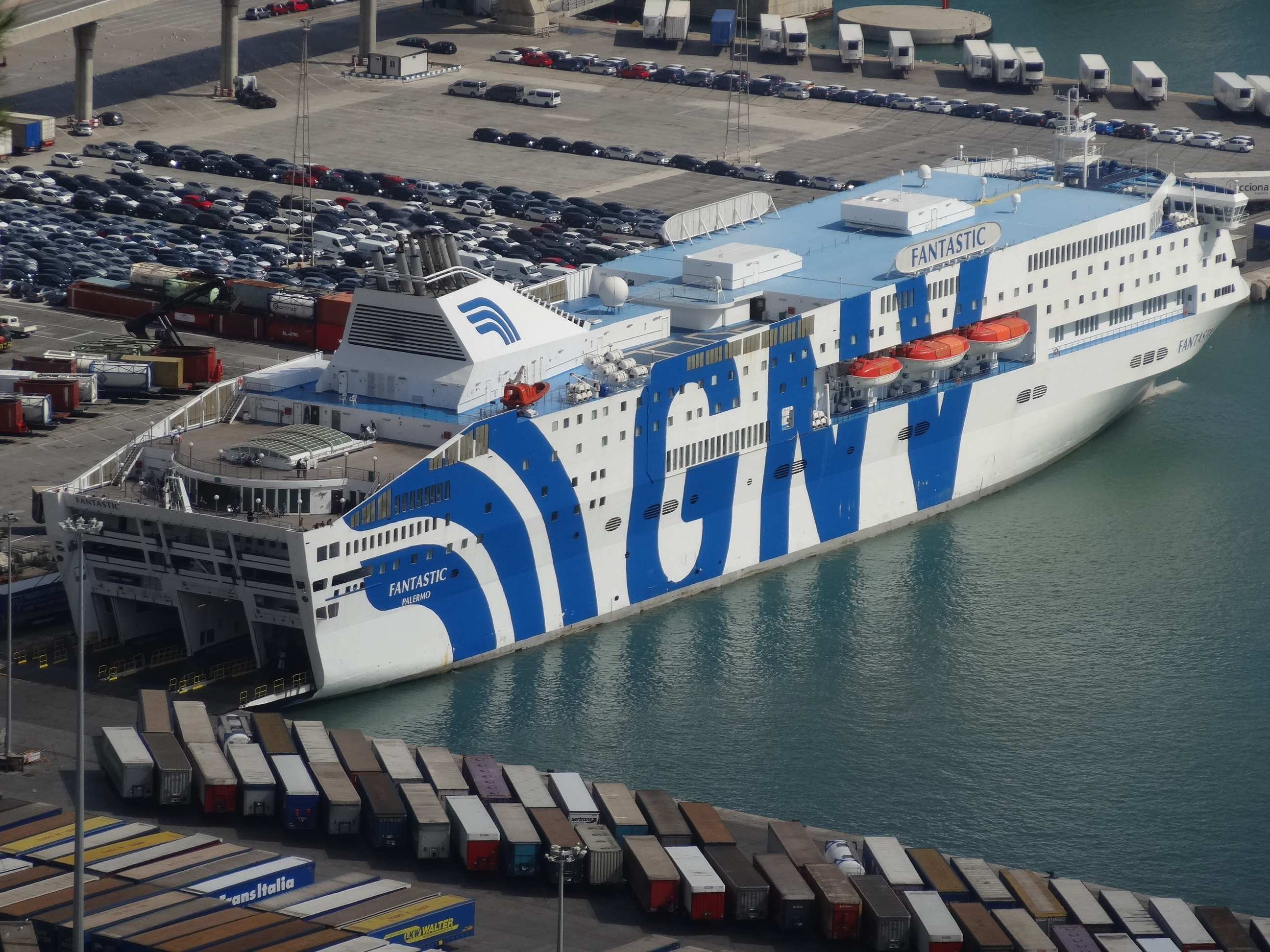 Moll de Ponent, Barcelona. Fantastic (ship, 1996) seen from Montjuic